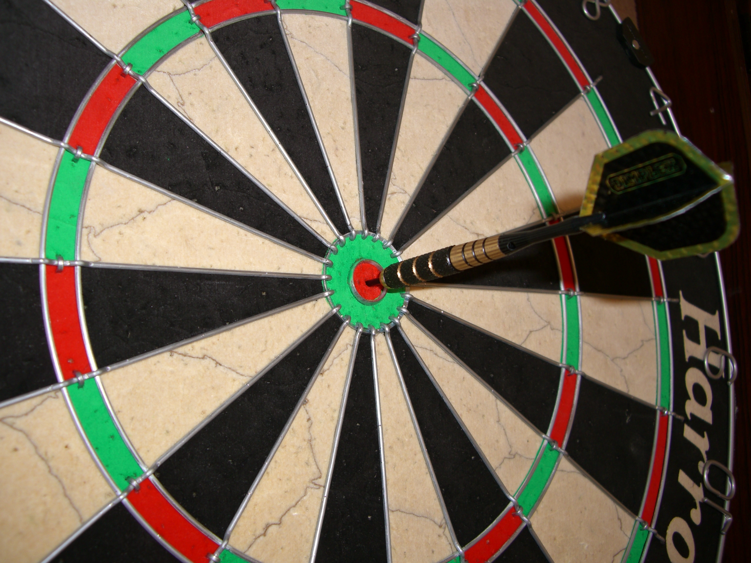 Bullseye on a standard Harrows Bristle Board.